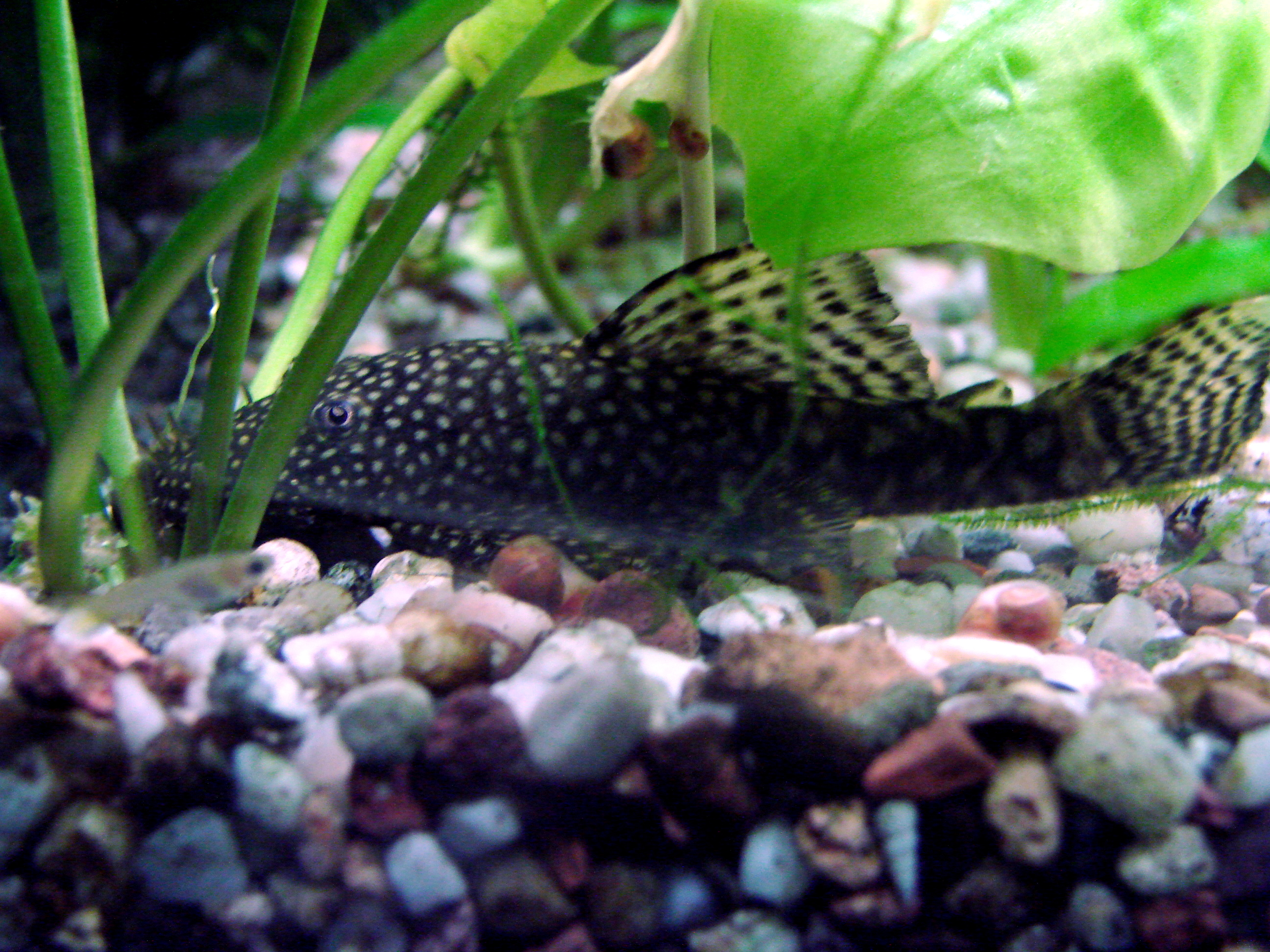 Picture taken in the zoo of Wrocław (Poland): Ancistrus dolichopterus (Kner, 1854)